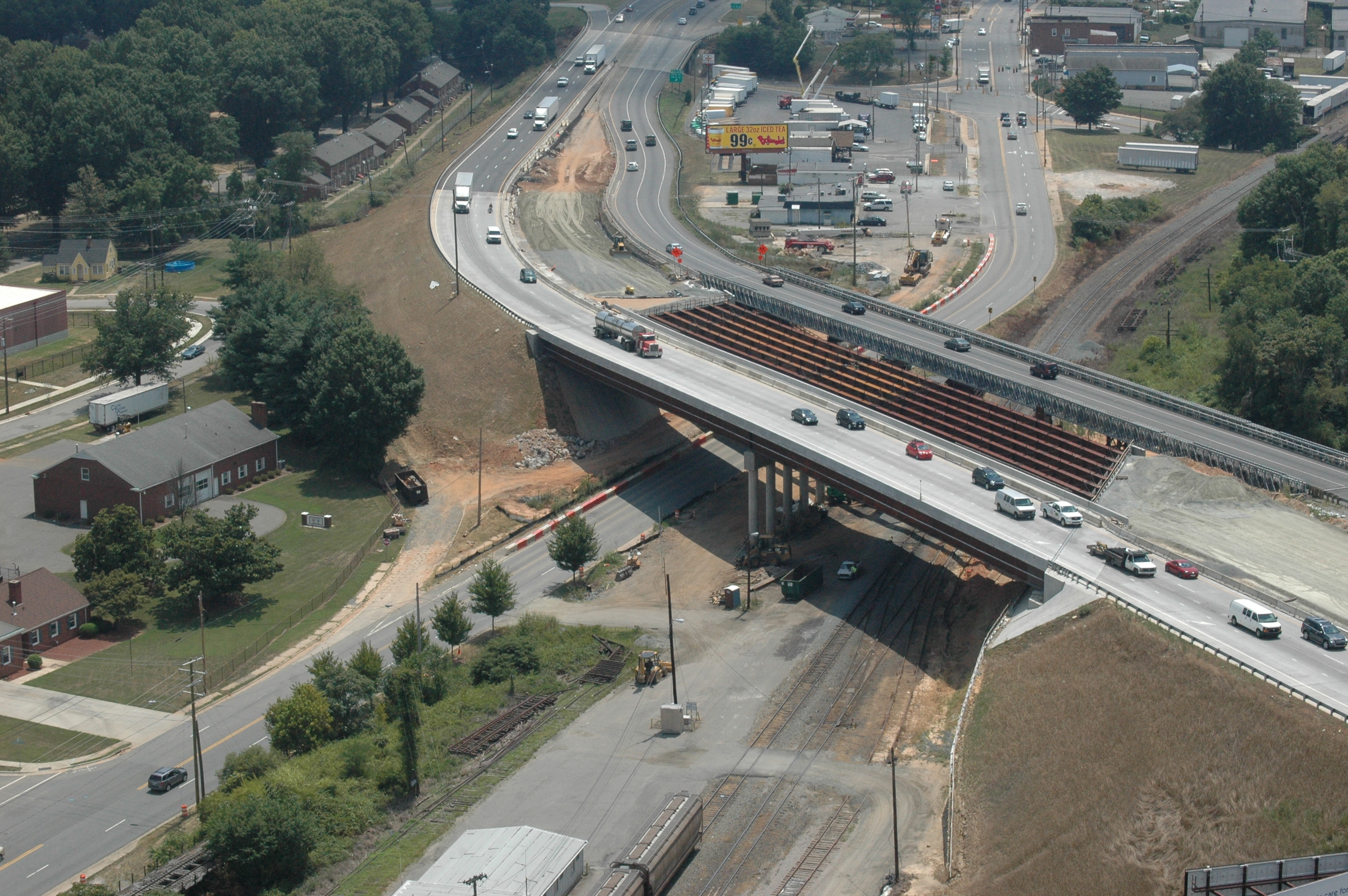 Crews have installed the girders on the new U.S. 52 South bridge over Liberty Street in Winston-Salem. They are now conducting paving work. The bridge is scheduled to open to traffic this fall.